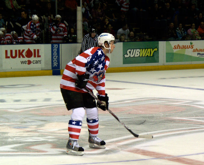 Chris Butler (#4) waits near the red line during play